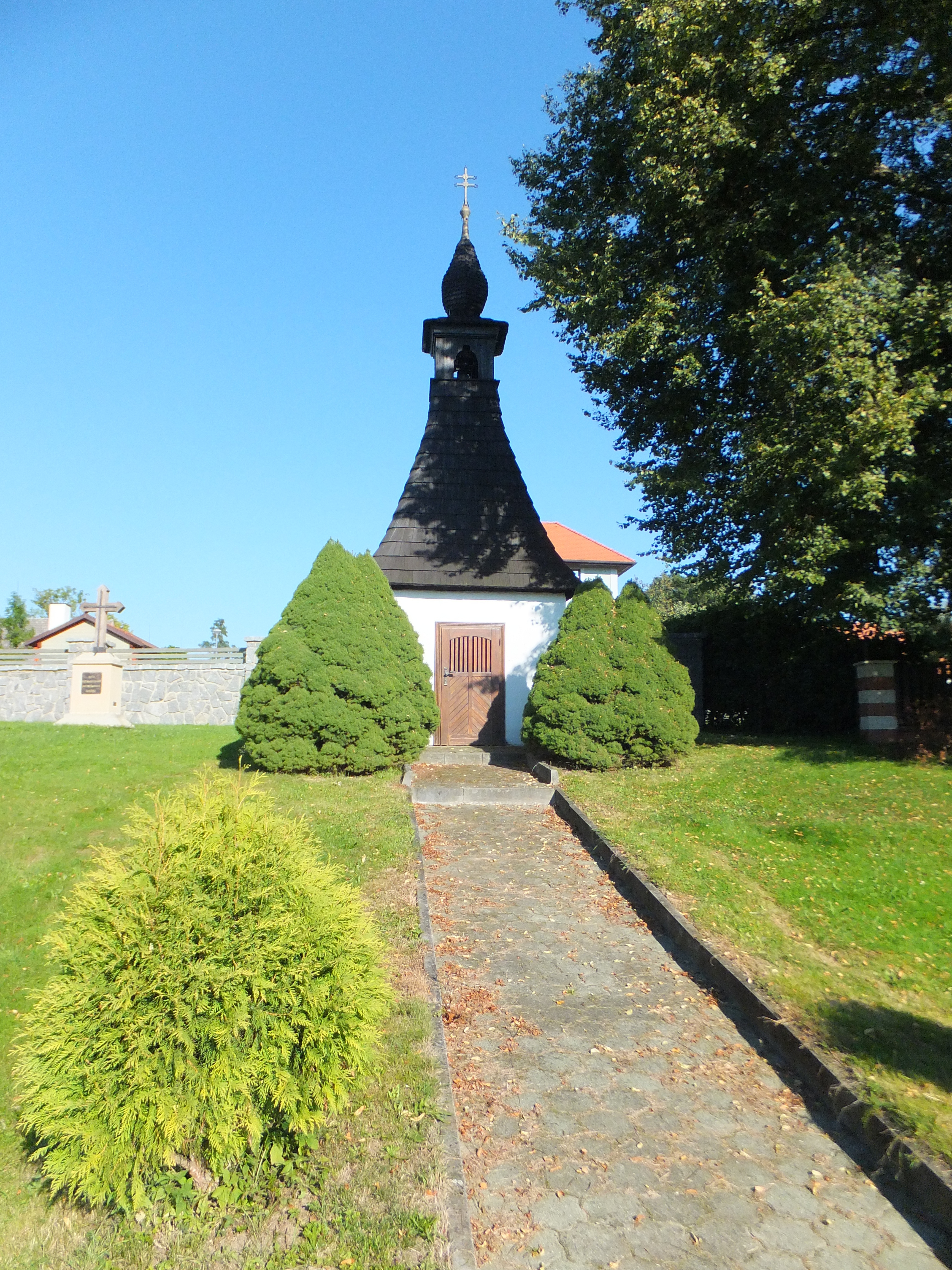 Spolí (České Budějovice District) - the chapel